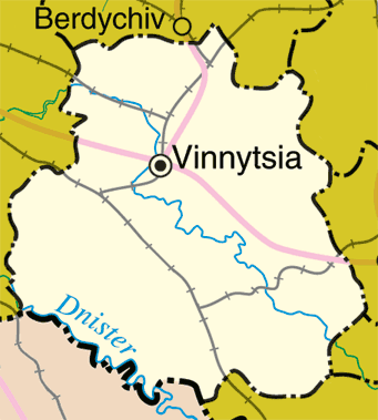 Map of Vinnytsia Oblast, Ukraine Adapted from